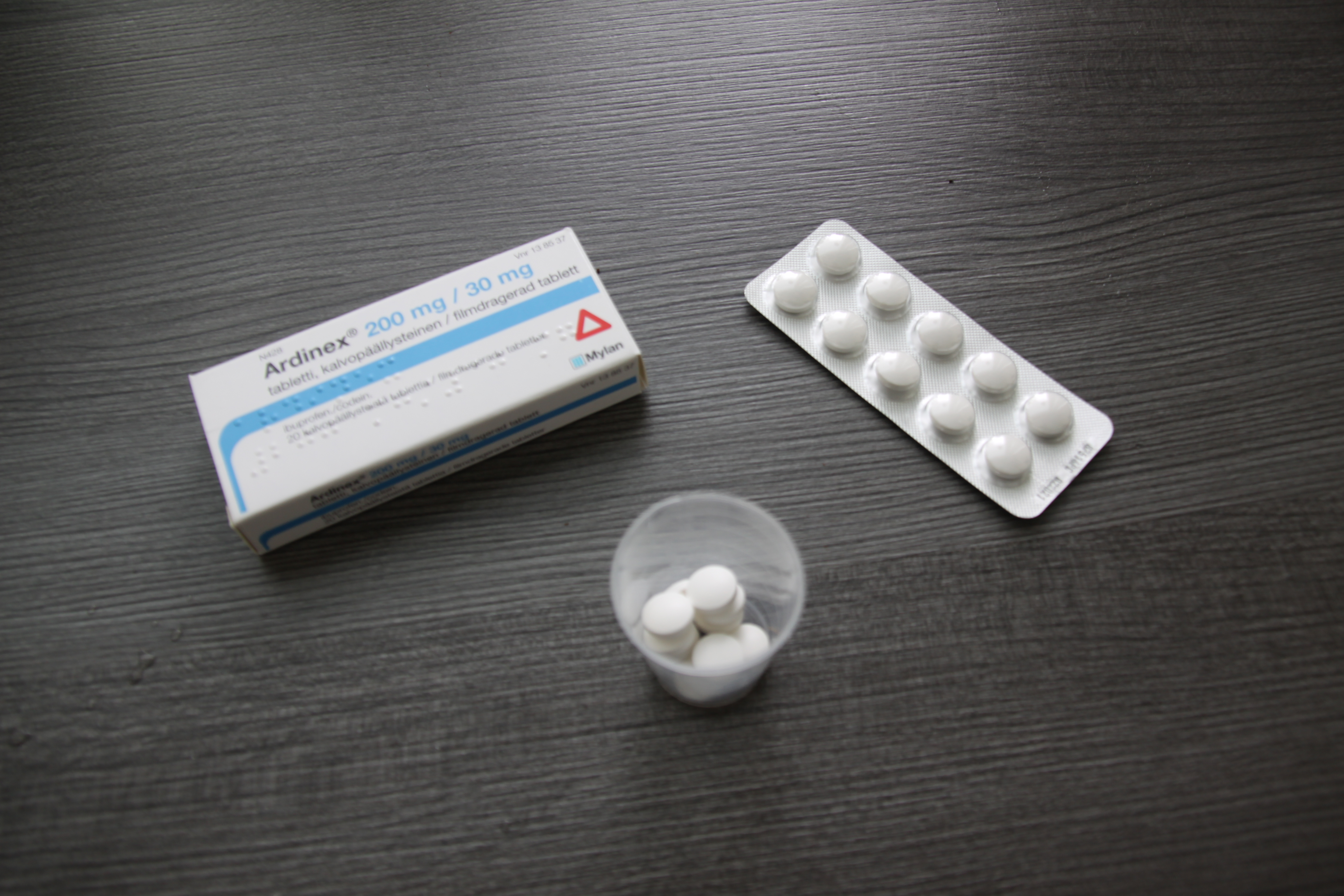 Ardinex: 200 mg of ibuprofen and 30 mg of codein in tablets